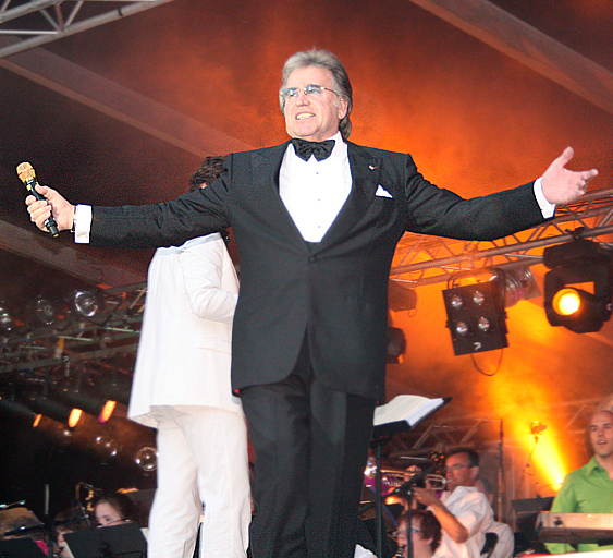 Lee Towers